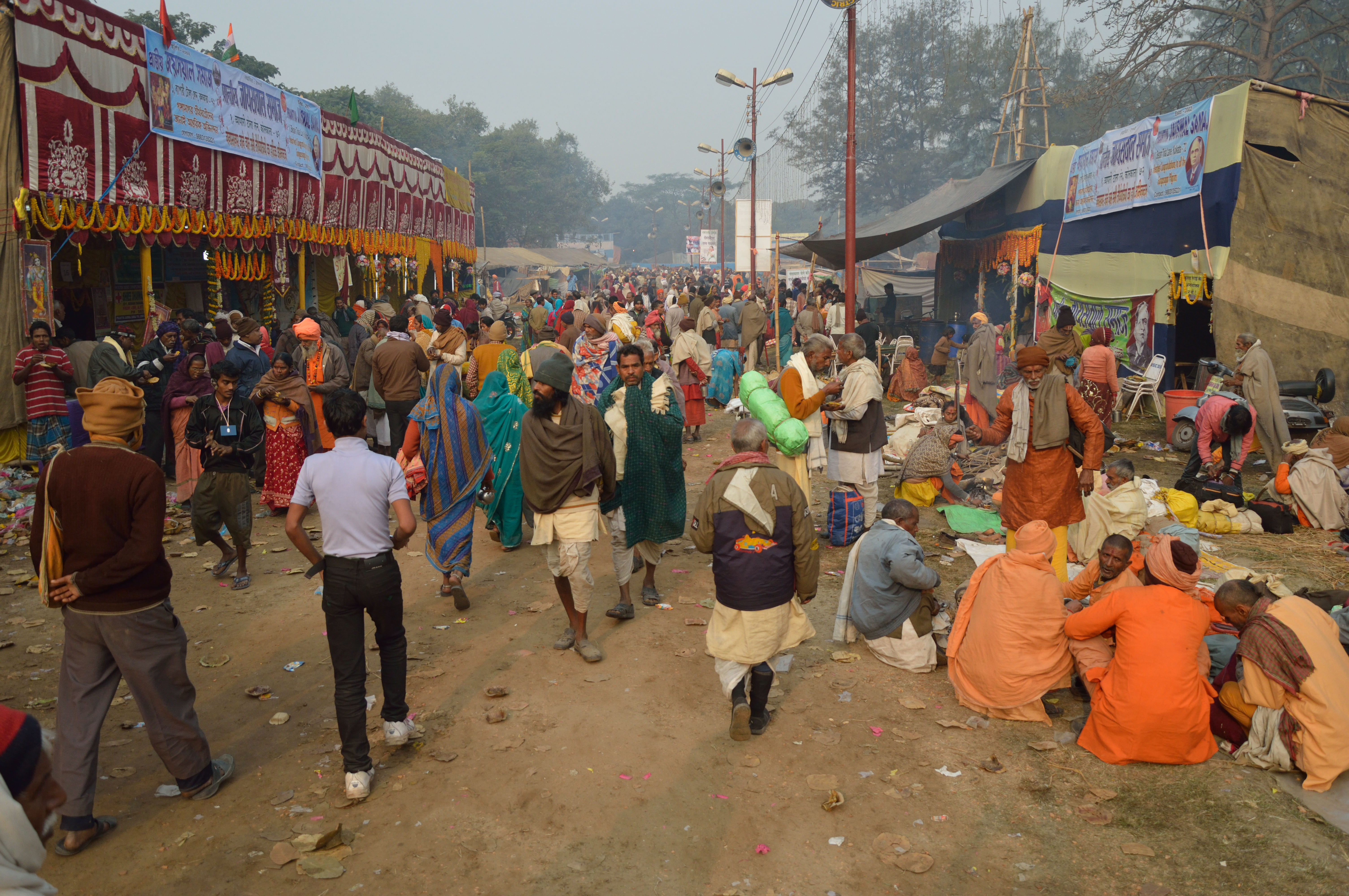 Photographed in Kolkata.